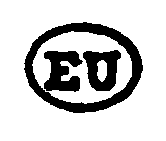 The collector's mark of Edward Vernon Utterson.